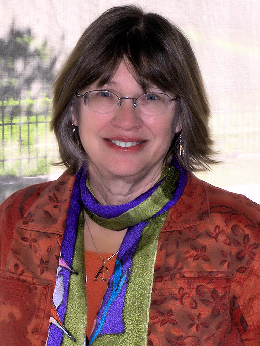 Historian Jacqueline Jones at the 2009 Texas Book Festival in Austin, Texas, United States.